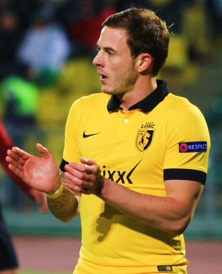 Nolan Roux